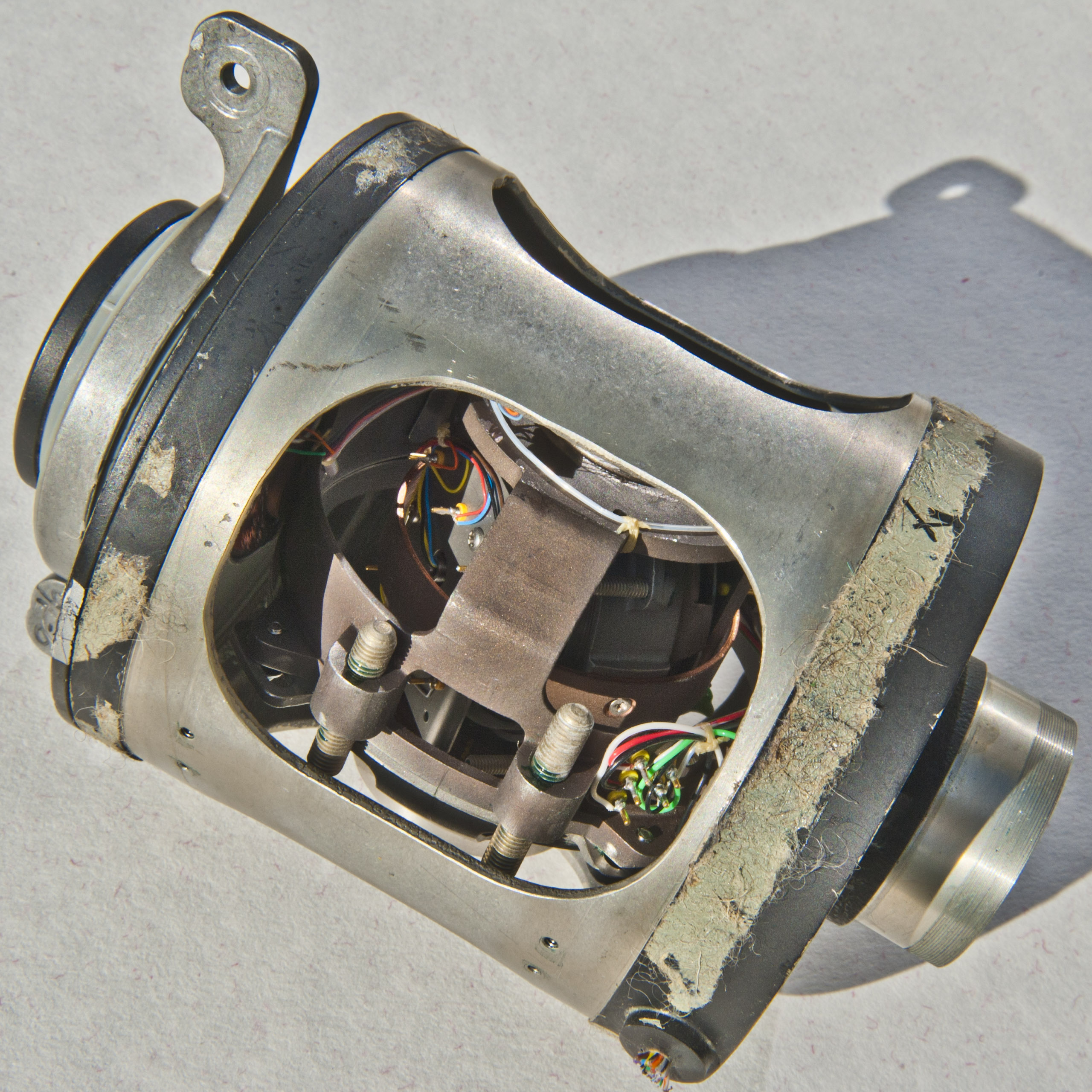 Horizontal gyrocompass for airplanes by Sperry